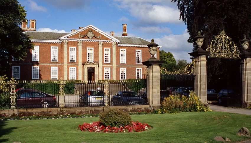 Market Bosworth Hall is a 17th-Century stately home that has been a hospital and is now a hotel. It is Grade II* listed. Scanned from a Fujichrome 35mm slide.